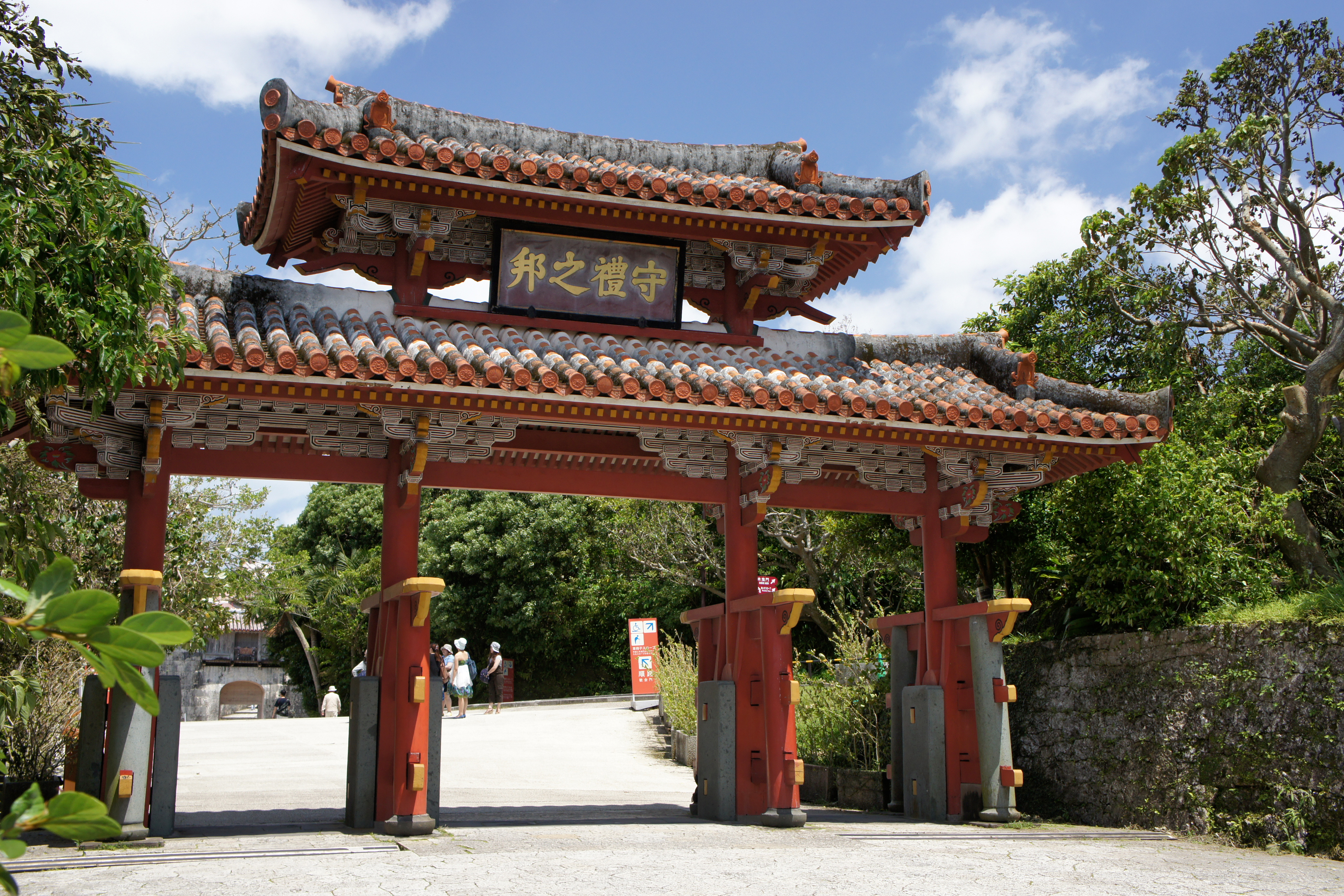 Shureimon of Shuri Castle in Naha, Okinawa prefecture, Japan Shuri Castle was registered as part of the UNESCO World Heritage Site "Gusuku Sites and Related Properties of the Kingdom of Ryukyu".